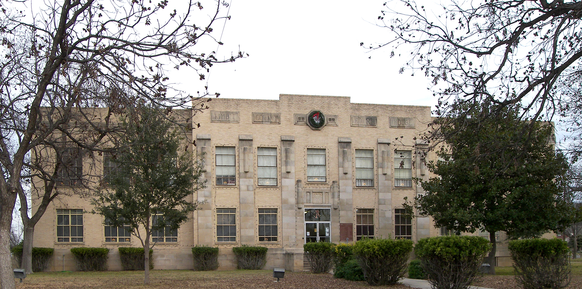 The Kimble County Courthouse located at 501 Main St, Junction, Texas, United States. The courthouse was designated a Recorded Texas Historic Landmark in 2000.